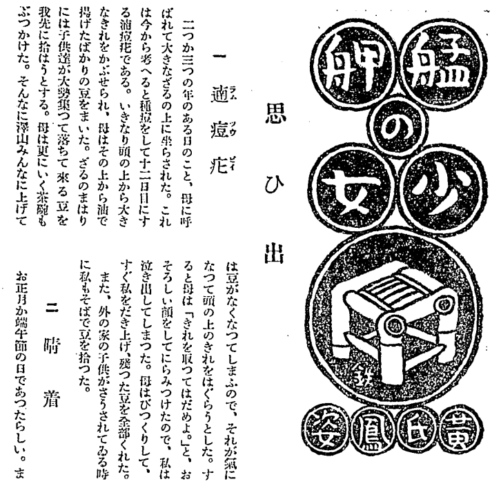 a series of articles under the main title 'Banka no shojo'